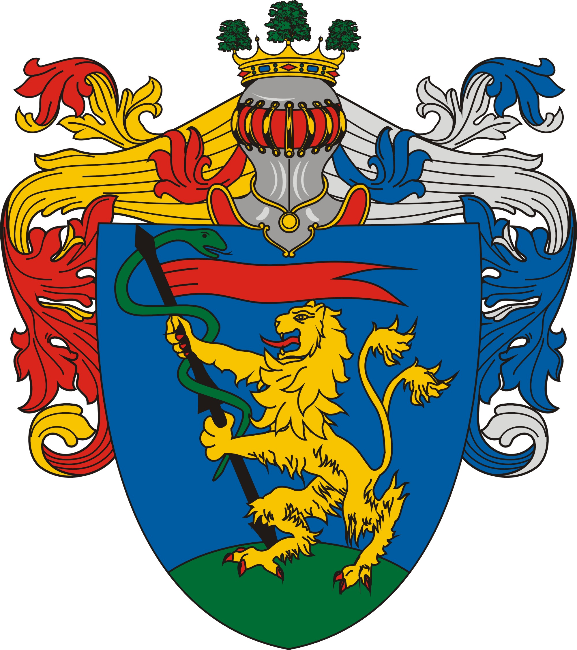 Coat of arms of Bácsborsód, Hungary